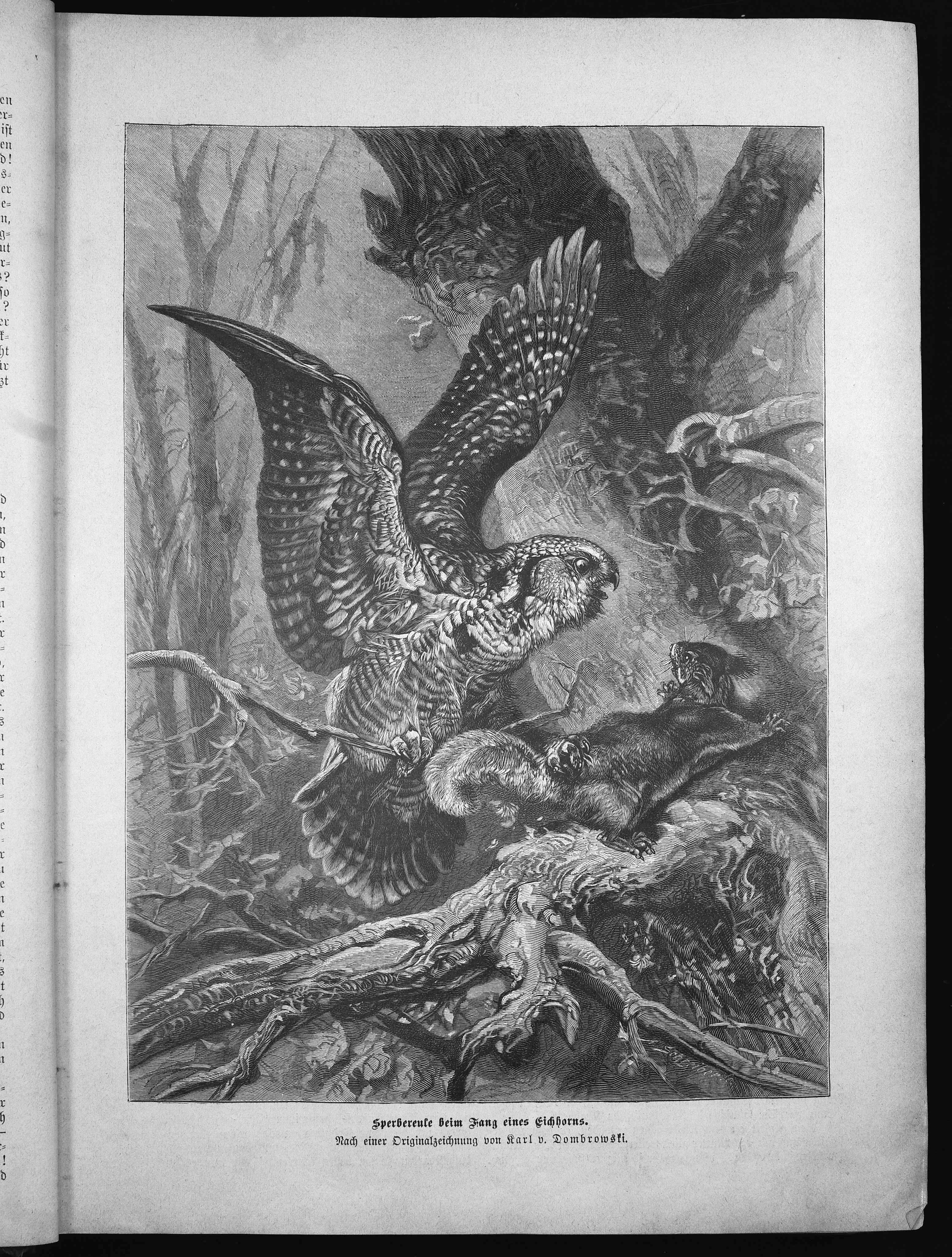 Page 13 from journal Die Gartenlaube for 1894.Extracted image (if any): File:Die Gartenlaube (1894) b 013.jpg - hi res, ~2.5 MB.